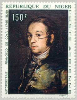 1968 Niger stamp 150F Goya